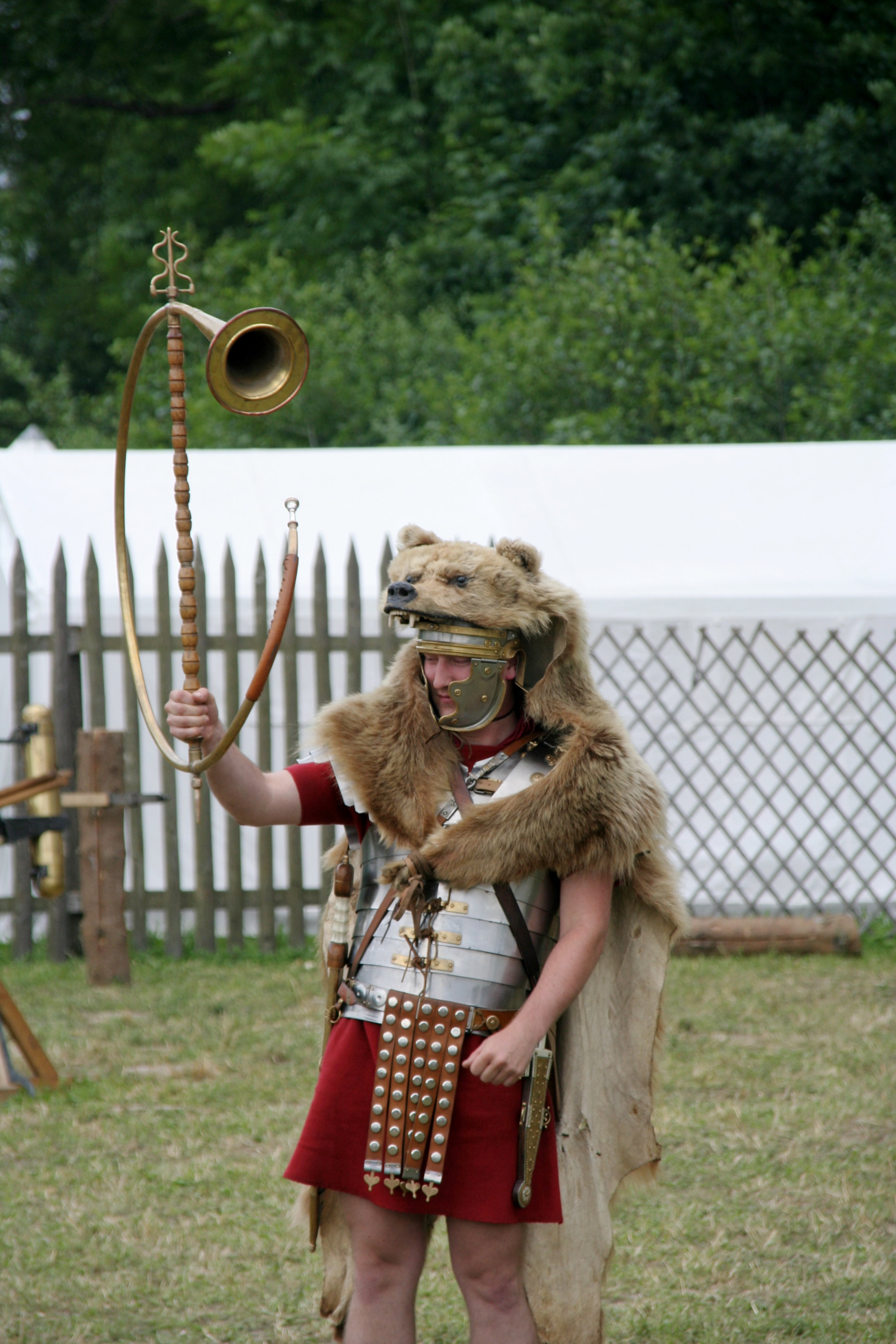 Cornicen Photographed by myself during a show of Legio XV from Pram, Austria